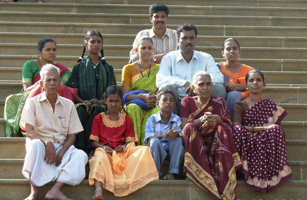 A typical Tamil Family